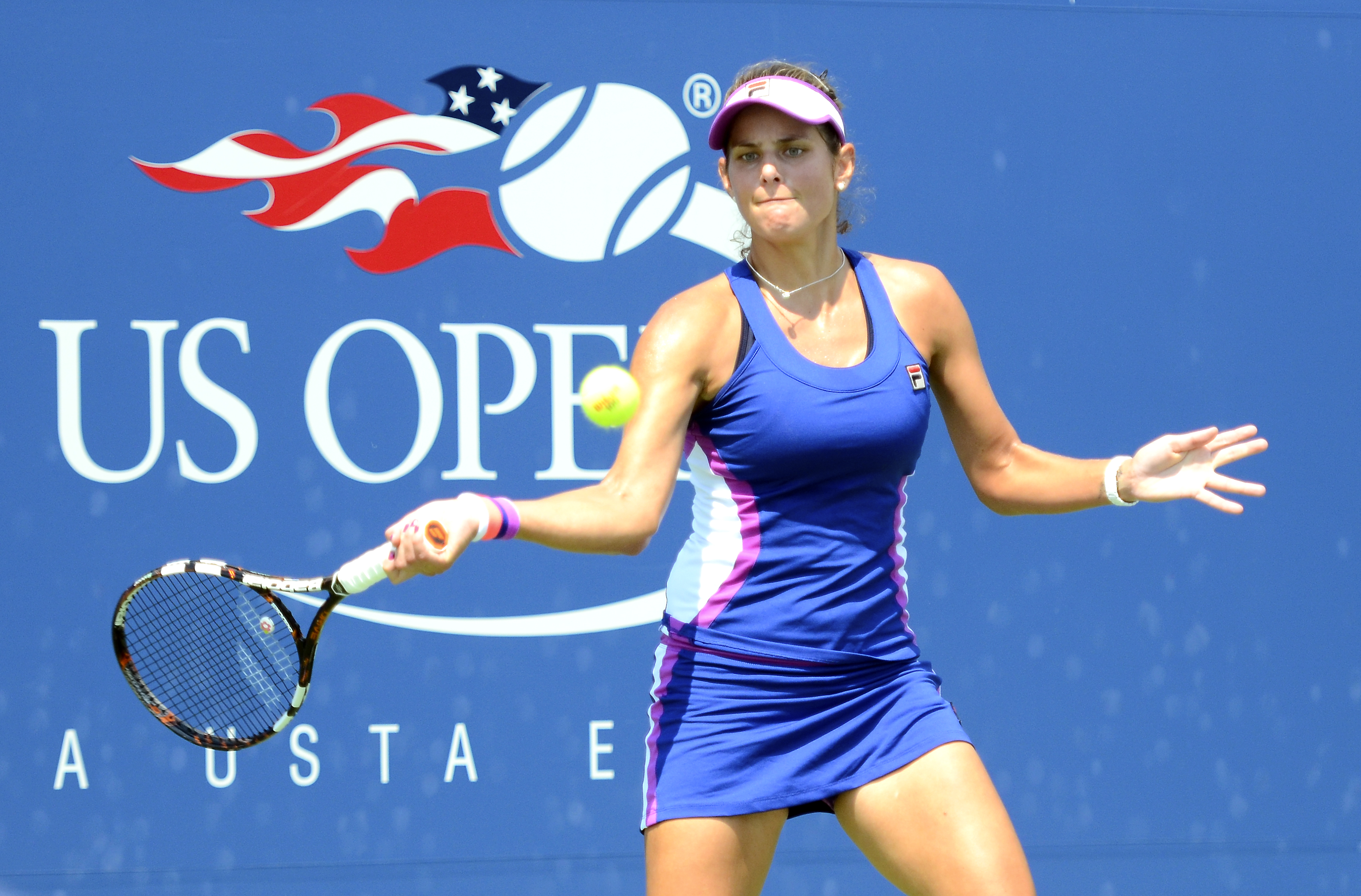 August 26, 2014 Queens, NY Flavia Pennetta (ITA) def Julia Goerges (GER)